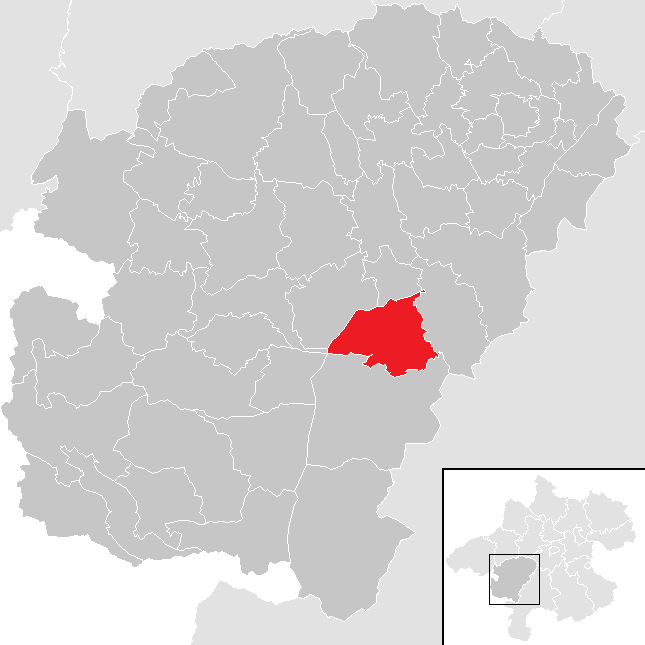 District Vöcklabruck